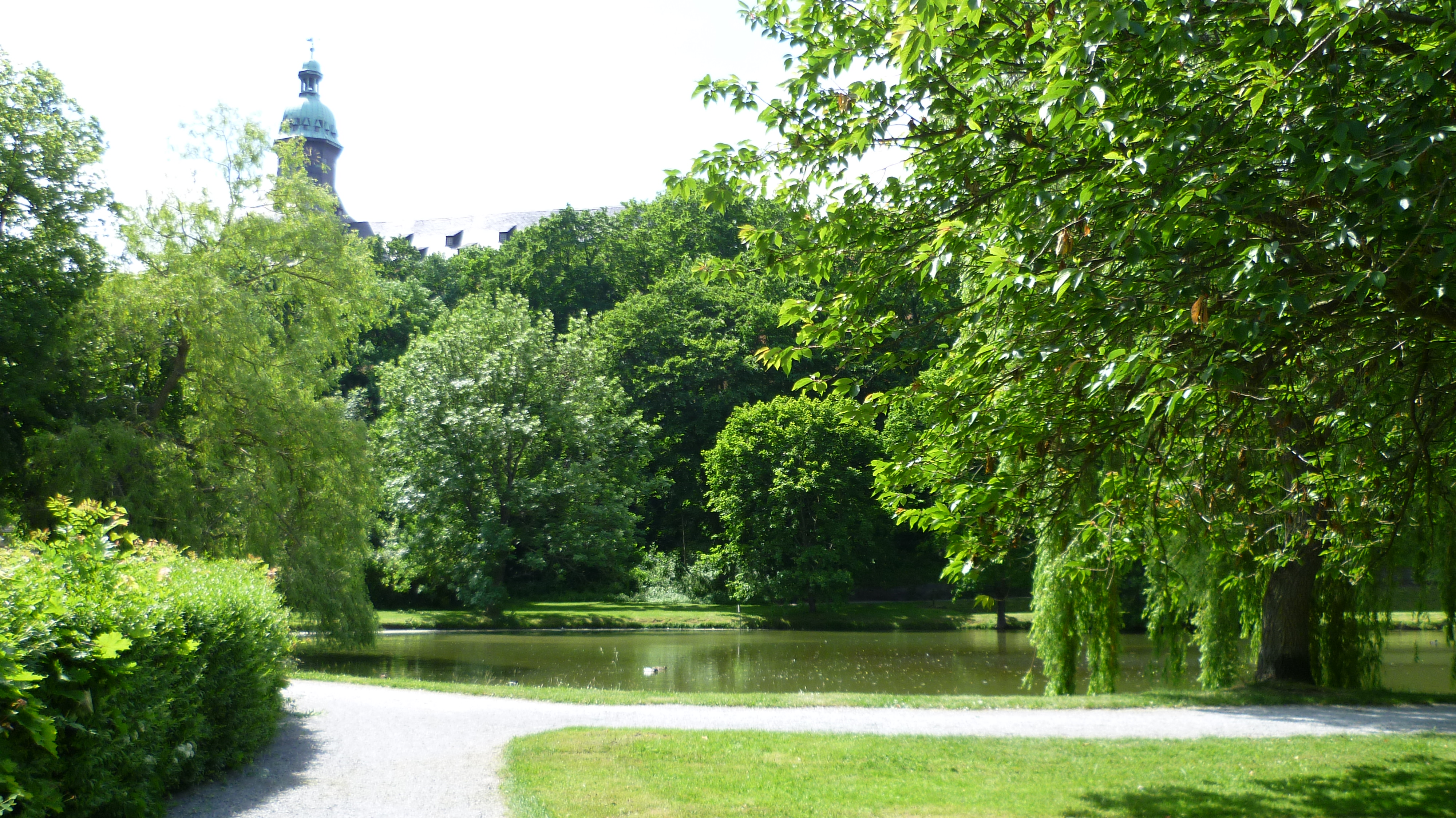 palace park of Sondershausen